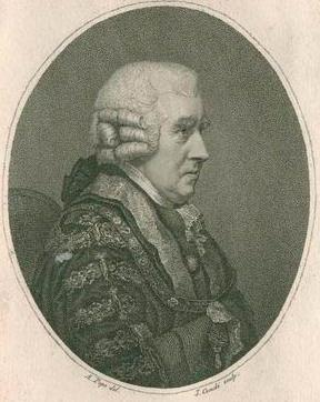 John Boydell, Lord Mayor of London, 1791 (from the European Magazine April 1792)